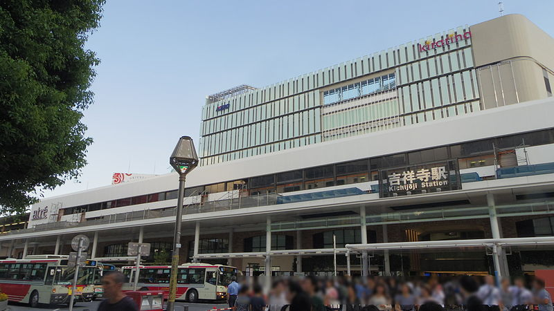 The north side of JR Kichijoji Station